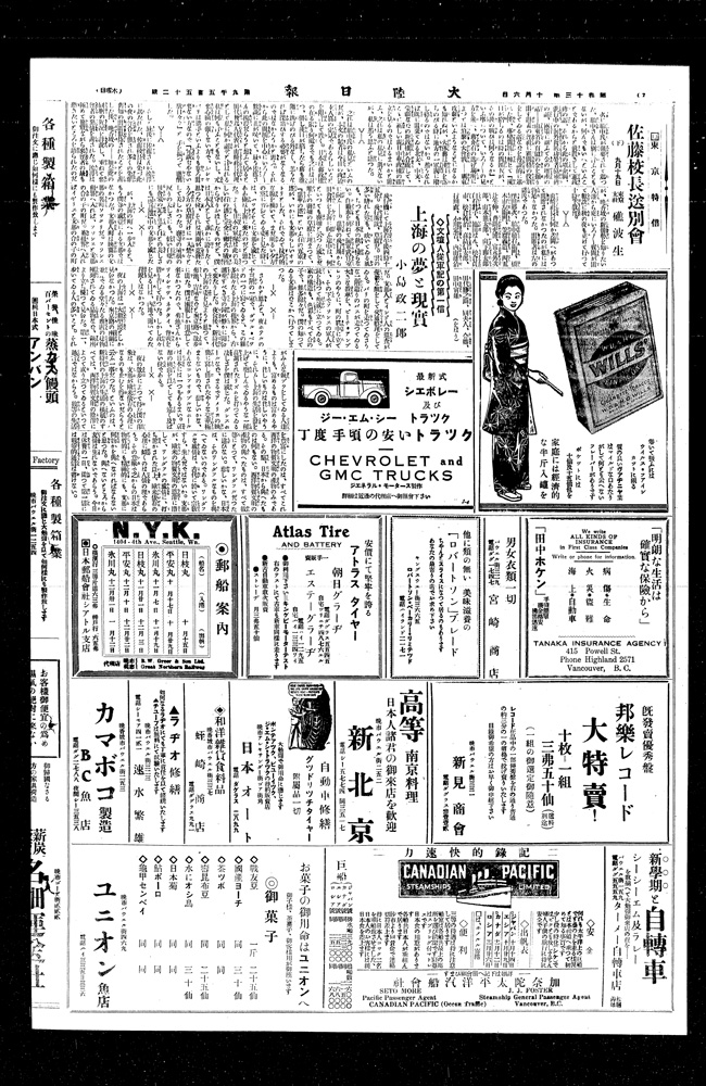 Reminder: No known copyright restrictions. Please credit UBC Library as the image source. For more information Date: 1938-10-06 Access Identifier: tairiku_nipo_1938-10-06 Source: Original Format: University of British Columbia. Library. PN4919.V23 T3 1989 Permanent URL: Description: 佐藤校長送別会； 上海の夢と現実 Japanese Title:大陸日報